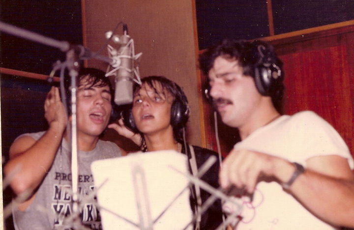 Grupo "The Morgan" en el estudio grabando "Lanza Perfume", tema de la artista Brasilera Rita Lee. De izquierda a derecha: Chris Hansen, Sandra Baylac y Hector "Zeta" Bosio. Otros integrantes del grupo eran Charlie Amato en guitarra, Hugo Dopaso en bacteria y Osvaldo Kaplan en teclados.